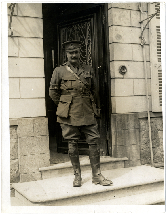 A Brigadier [Brigadier-General Blackader] at his headquarters [Le Sart, France].